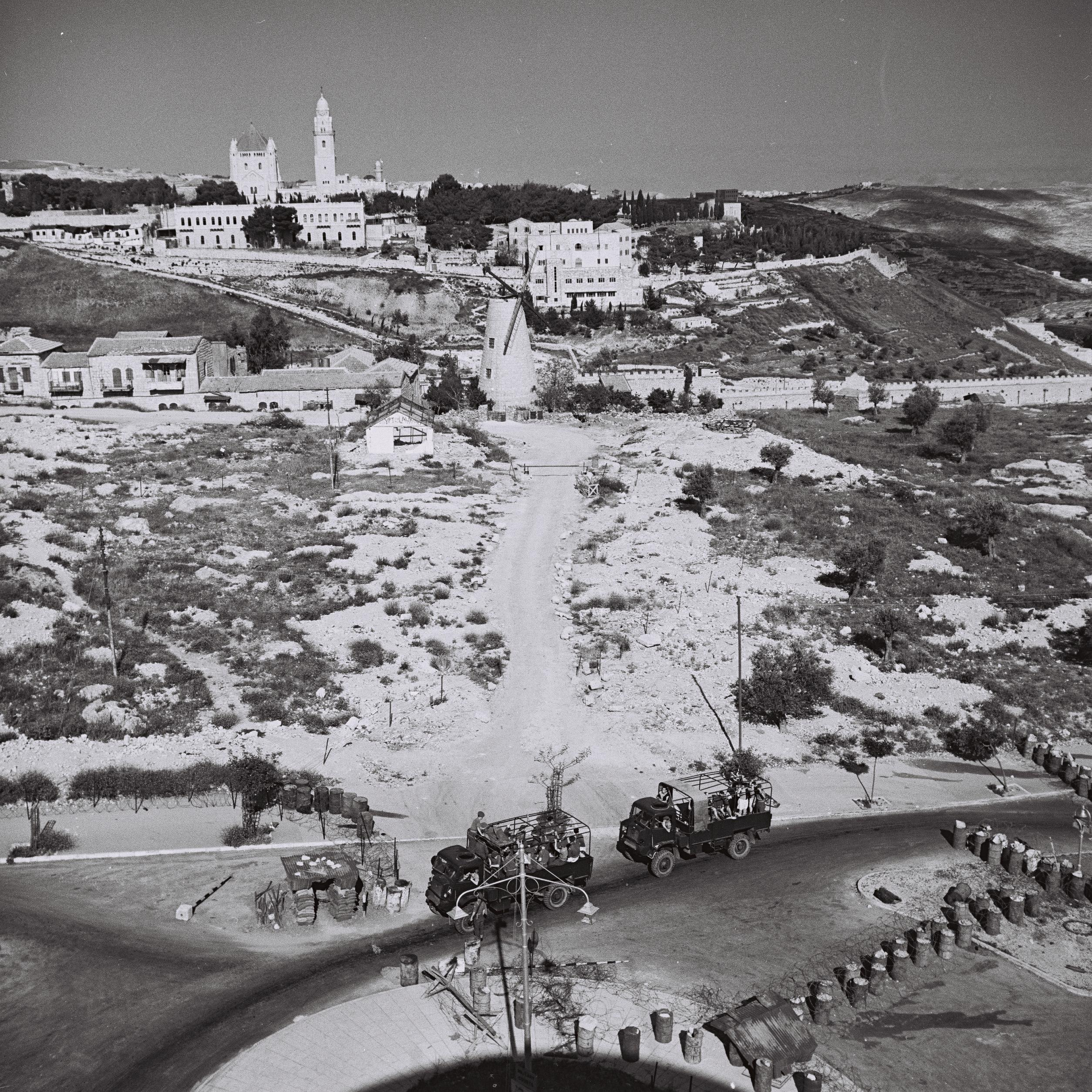 BRITISH AMBULANCES STANDING ON KING DAVID STREET (BOTTOM) WITH THE MONTEFIORE QUARTER AND MOUNT ZION ACROSS THE NO MANS LAND IN THE BACKGROUND IN JERUSALEM.